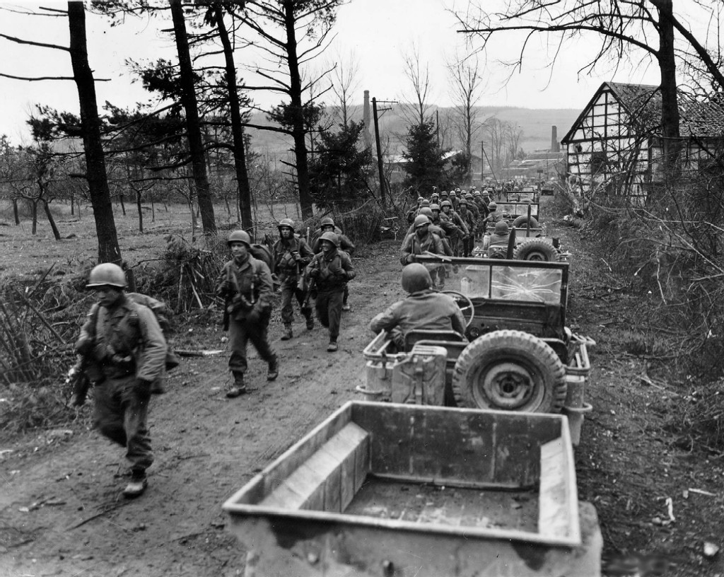 Infantrymen of the 1st Infantry Division, U.S. First Army, move up into Frauwüllesheim, Germany, after crossing the Roer River. Company C, 1st Battalion, 18th Infantry Regiment, 1st Infantry Division. 2/28/45.